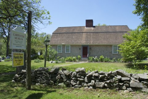 Rehoboth Antiquarian Society/Carpenter Museum photo. Color picture of Carpenter Museum, 4 Locust Avenue, Rehoboth, MA